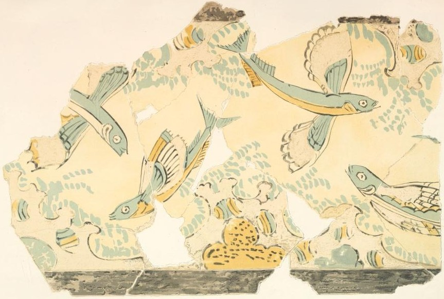 Fragments of the flying fish painting, Phylakopi, redrawn for T. D. Atkinson et al., Excavations at Phylakopi in Melos (1904)